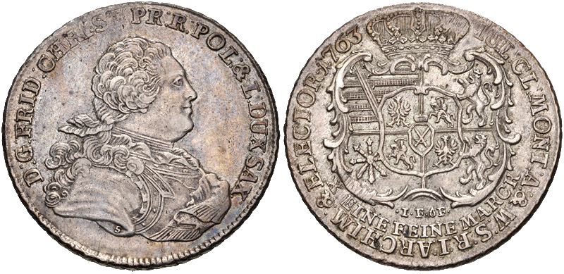 GERMANY, Sachsen-Albertinische Linie (Kurfürstentum). Friedrich Christian. 1763. AR Konventionstaler (42mm, 27.94 g, 12h). Dresden mint. Dated 1763. Draped and armored bust right / Crowned coat-of-arms. Davenport 2677B. Good VF, light adjustment marks.